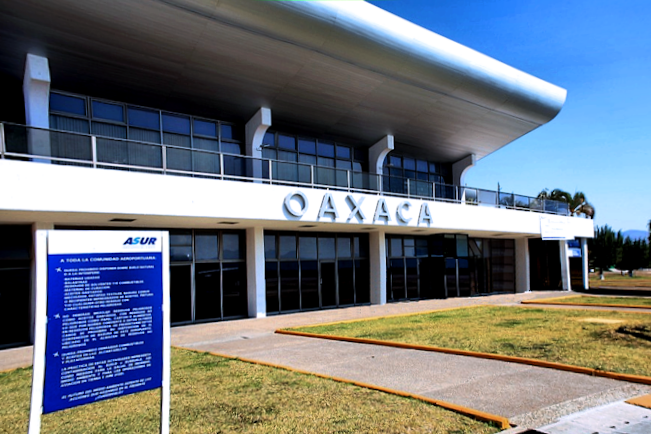 Xoxocotlán International Airport in Oaxaca, Mexico. Scanned from 35mm film.